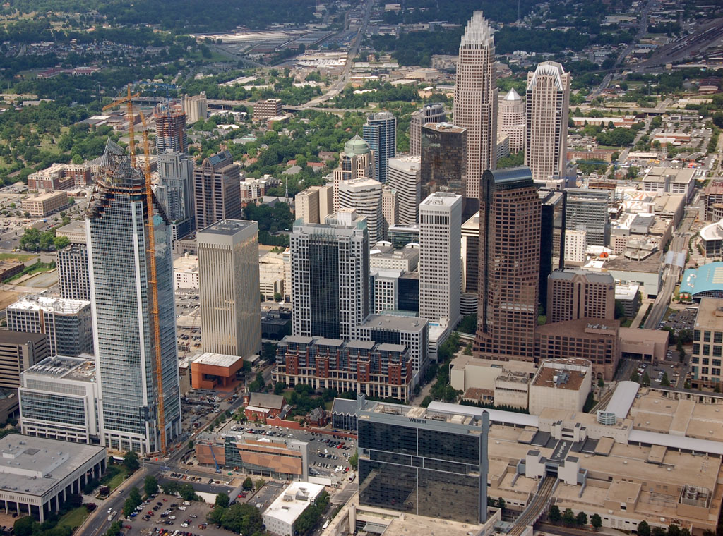 Aerial photo of Charlotte, NC center city.